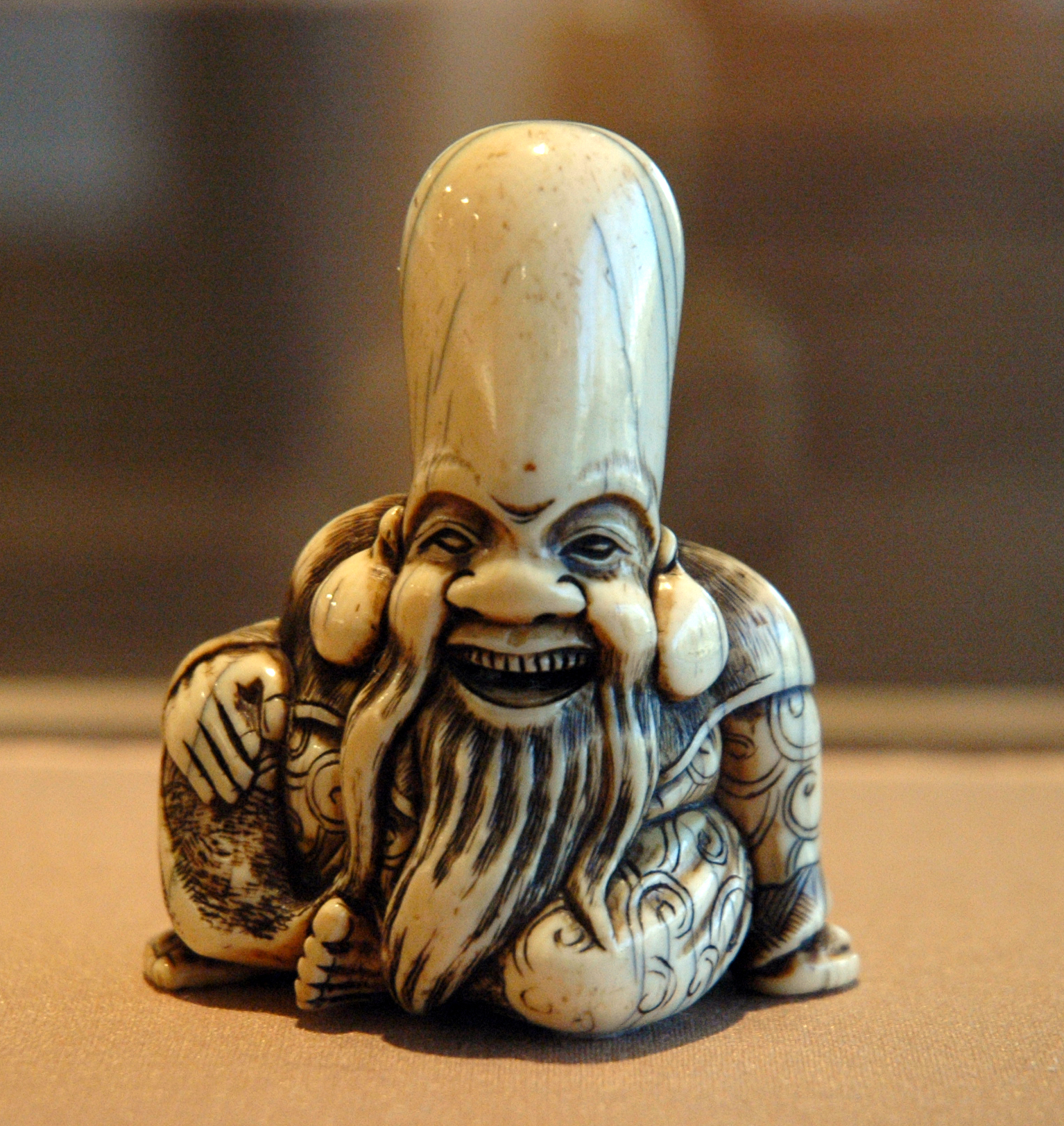 From the Raymond and Frances Bushell Collection at the Los Angeles County Museum of Art. Photographed in the Netsuke Room of the Japanese Pavilion.